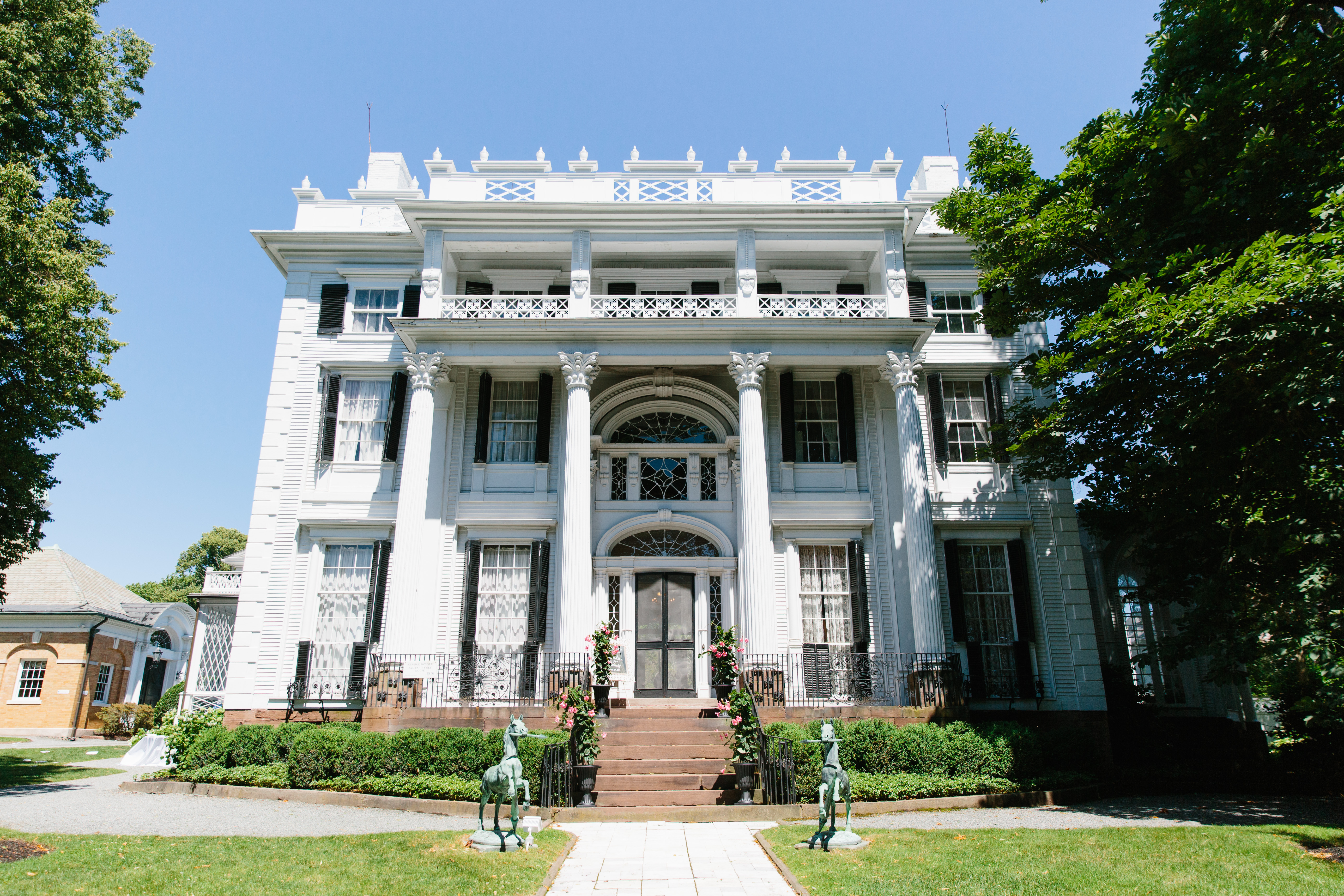 Exterior of Linden Place Mansion in the Springtime. Image was taken by Tiffany Axtmann Photography